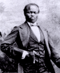 A portrait of James Pinson Labulo Davies, photographed in London in 1862 by Camille Silvy.